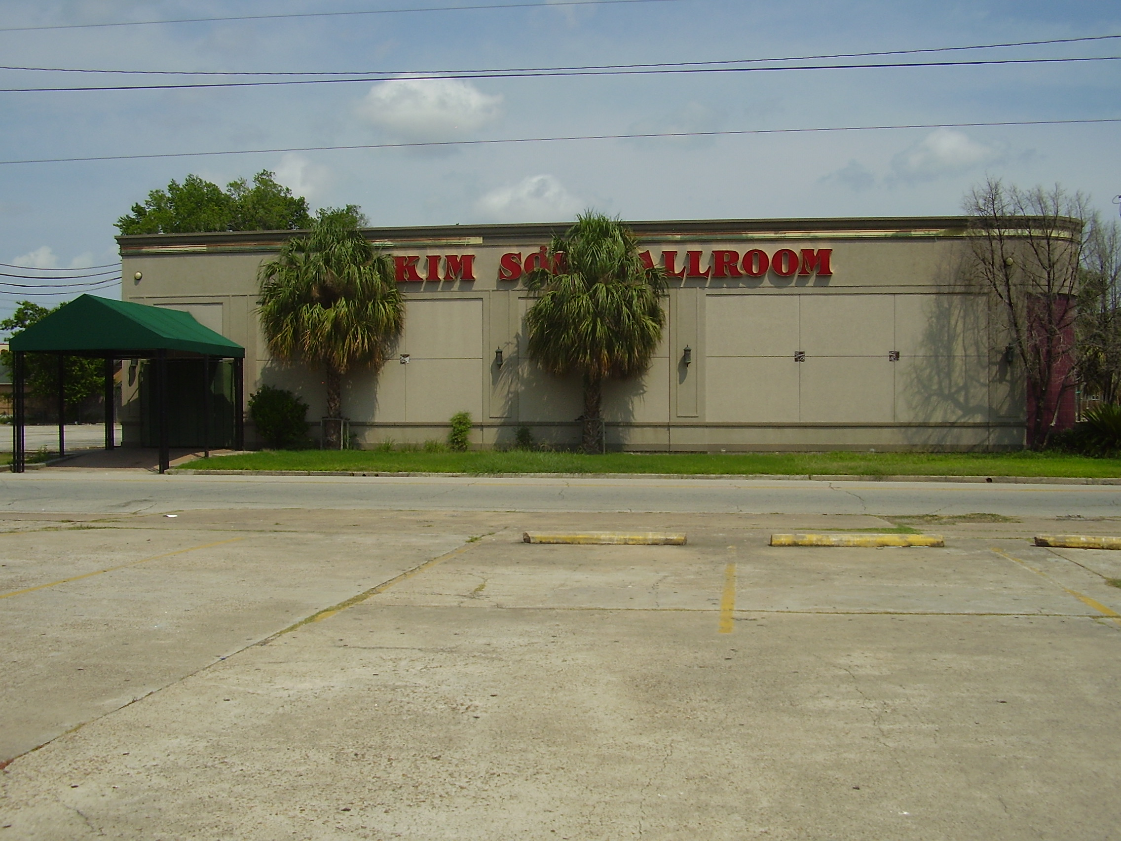 Kim Sơn Ballroom